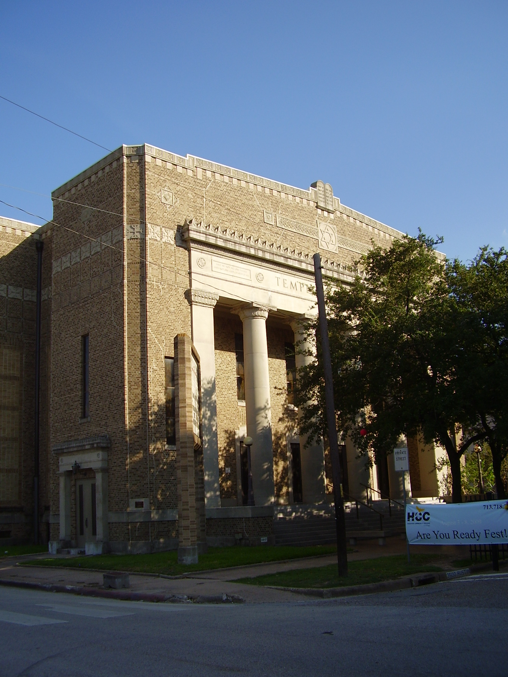 Heinen Theater, formerly the Temple Beth Israel of the Congregation Beth Israel